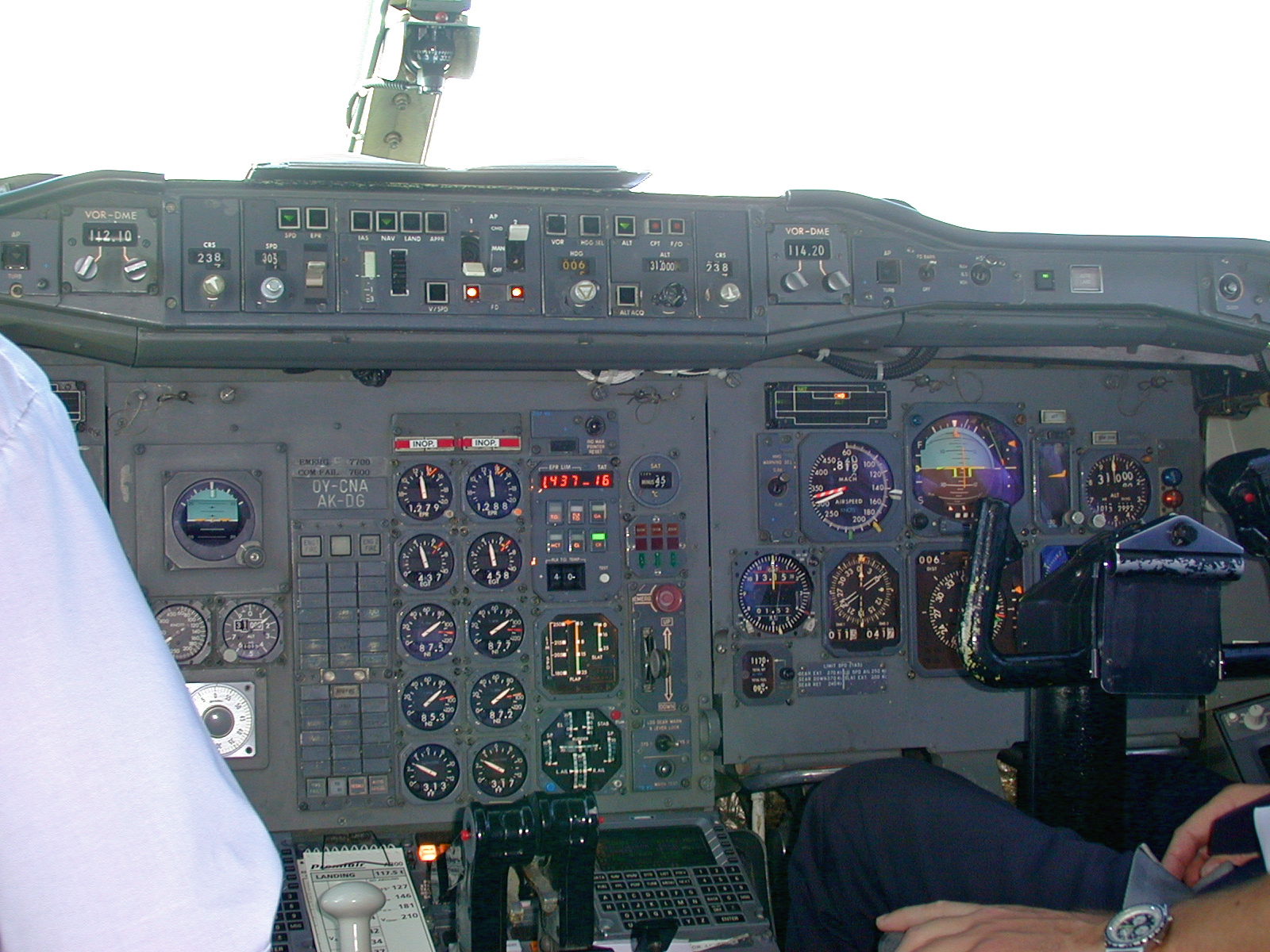 Cockpit of Airbus A300B4 aircraft of Premiair